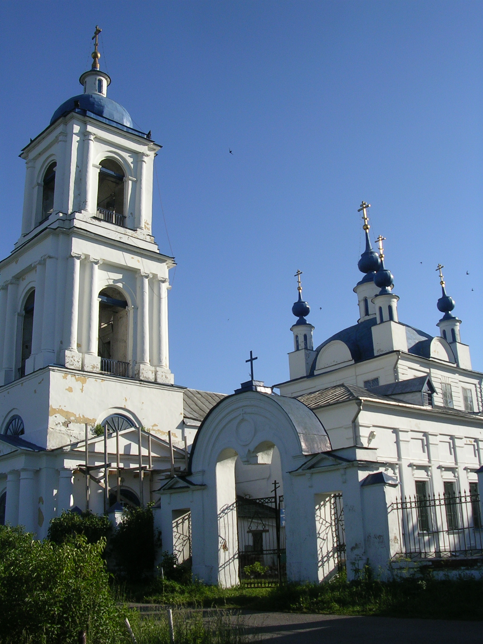 Temple sanctificated in the name of Elijah prophet in Mamontovo, Noginsk district, Moscow region.